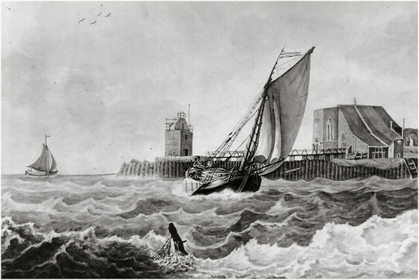 Pen drawing of the church on the south end of the island Schokland